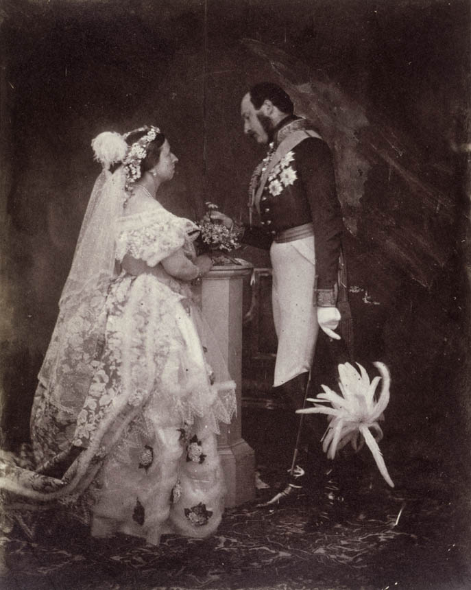 Queen Victoria and Prince Albert, Buckingham Palace, 11 May 1854 (after a Drawing Room)